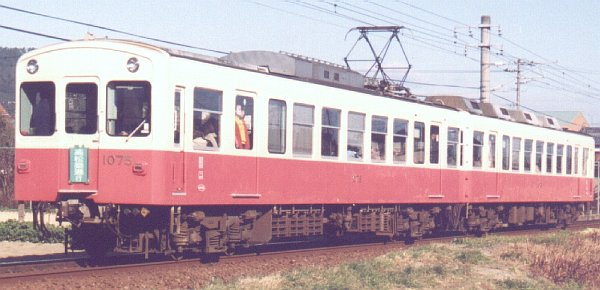 Takamatsu-Kotohira Electric Railroad No 1075 running between Sanjo and Ota